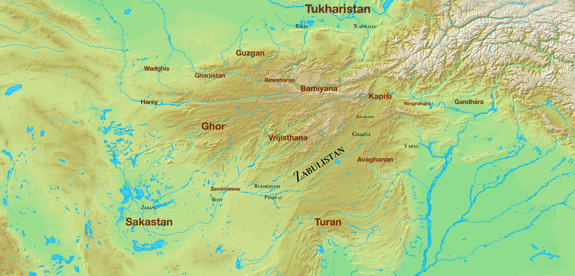 Illustration of Zabulistan and its surrounding regions, 7-10th century. Main sources "the Great Tang Dynasty Record of the Western Regions" and the "Hudud al-'Alam". Map taken from DEMIS Mapserver, which is public domain.